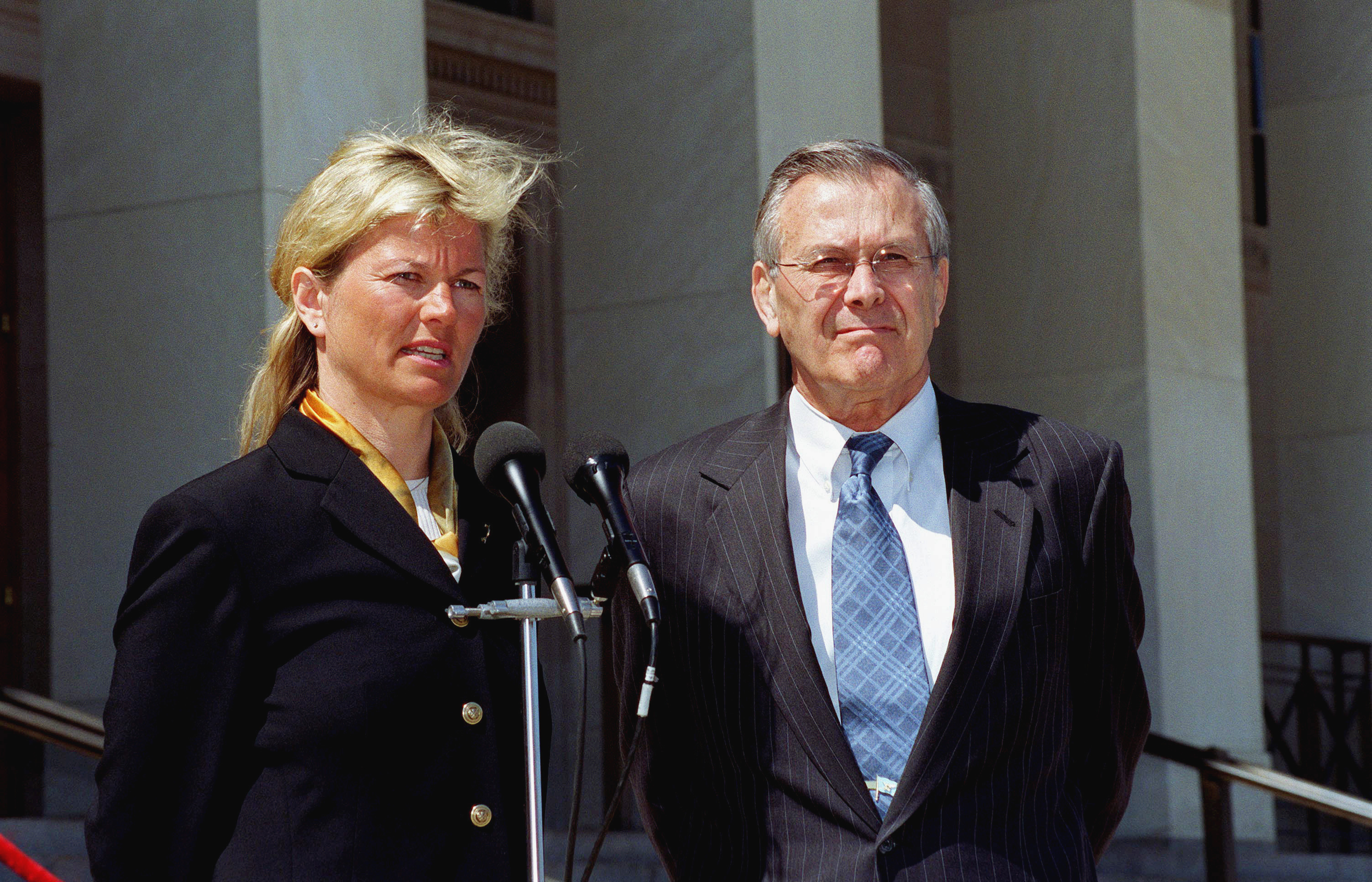 The Honorable Donald H. Rumsfeld (right), U.S. Secretary of Defense,and Kristin Krohn Devold, Norwegian Minister of Defense, hold a joint press conference at the River Entrance of the Pentagon, Washington, D.C.